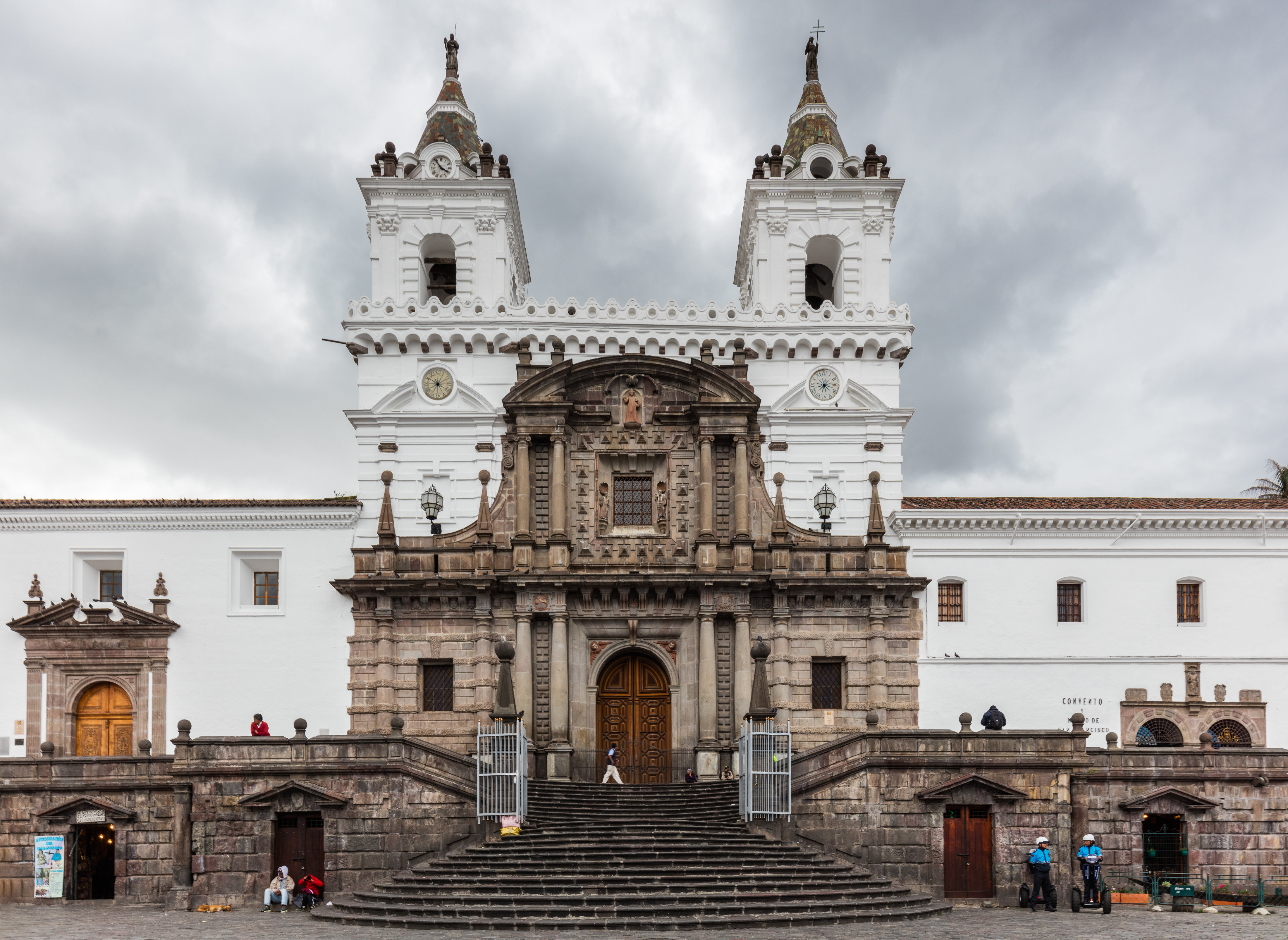 Church of San Francisco, Quito, Ecuador